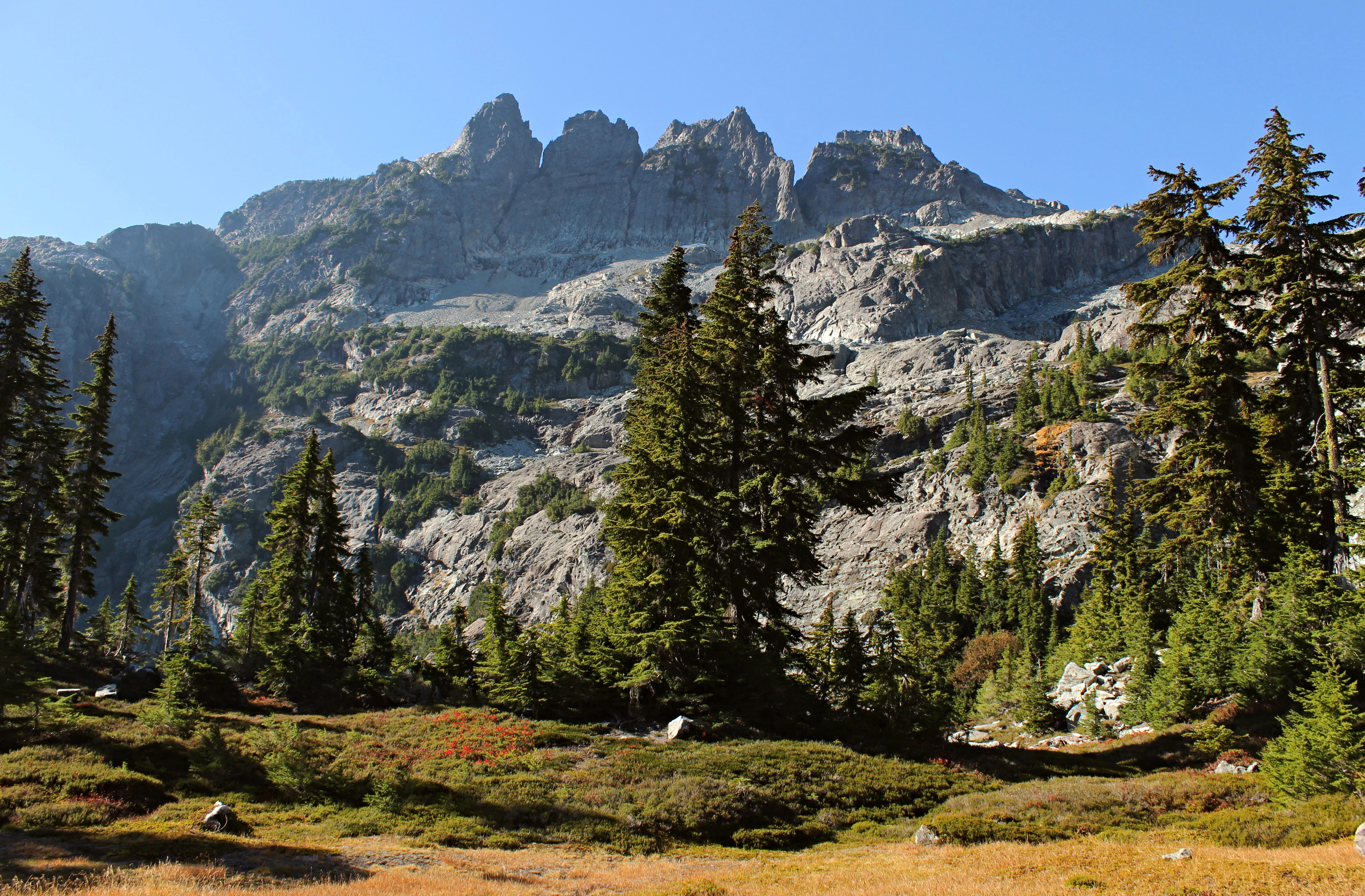 Four Brothers along Chikamin Ridge, Alpine Lakes Wilderness on the Okanogan-Wenatchee National Forest